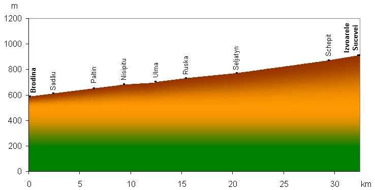 Railway track Brodina-Izvoarele Sucevei